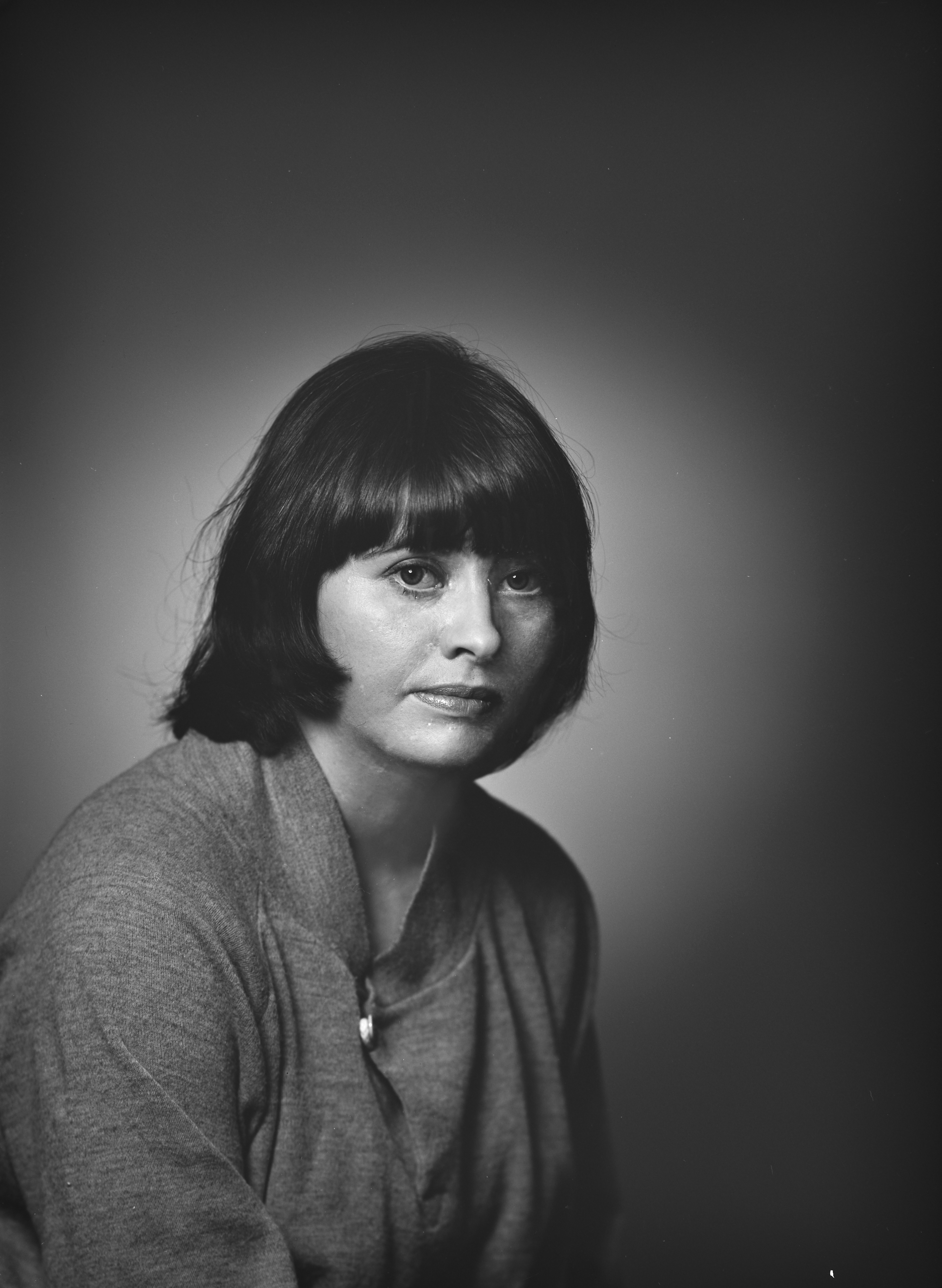 Photograph of the Finnish journalist Mirja Pyykkö (1946–).